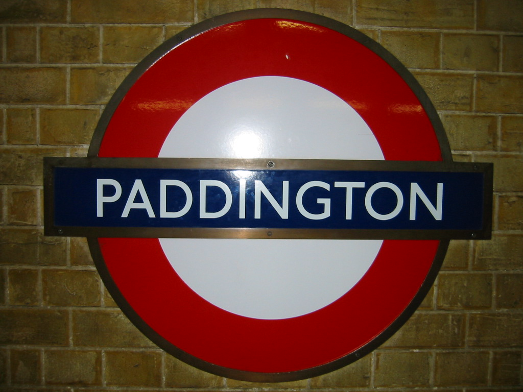 Paddington Station, London